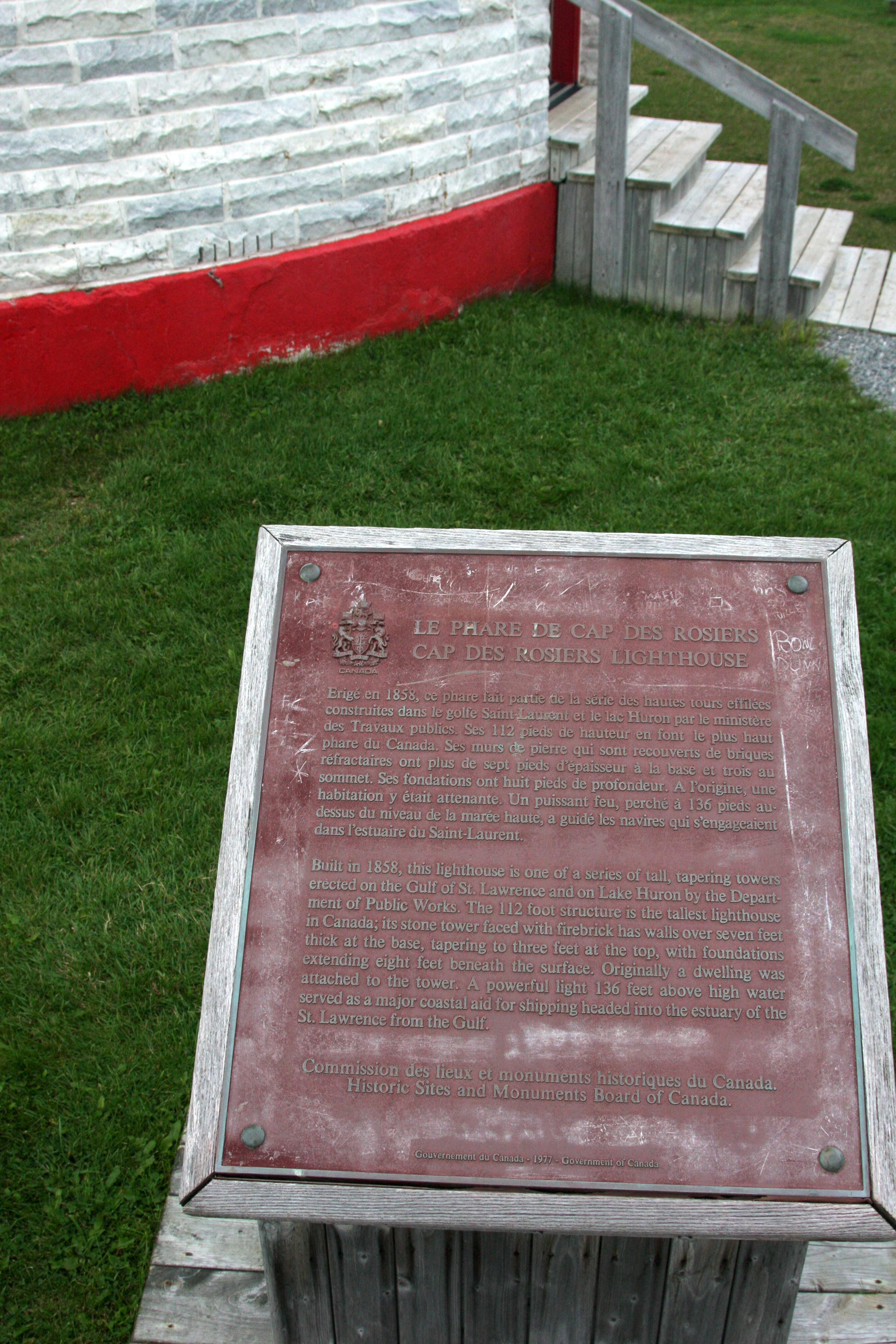 The Cap-des-Rosiers Lighthouse (French: Phare de Cap-des-Rosiers) is a lighthouse in Cap-des-Rosiers in Gaspé, Quebec, Canada. The Historic Sites and Monuments Board of Canada plaque at the base of the lighthouse reads (in English): "Built in 1858, this lighthouse is one of a series of tall, tapering towers erected on the Gulf of St. Lawrence and on Lake Huron by the Department of Public Works. The 112 foot structure is the tallest lighthouse in Canada; its stone tower faced with firebrick has walls over seven feet thick at the base, tapering to three feet at the top, with foundations extending to eight feet beneath the surface. Originally a dwelling was attached to the tower. A powerful light 136 feet above high water served as a major coastal aid for shipping headed int the estuary of the St. Lawrence from the Gulf. Historic Sites and Monuments Board of Canada - Govenment of Canada - 1977" It was classified as a National Historic Site of Canada on June 11, 1973. It was listed as a Federal Heritage Building on March 31, 1994. The Cap-des-Rosiers Lighthouse is the tallest lighthouse in Canada, standing 34.1 metres (112 ft) tall. It is situated on the south shore of the Saint Lawrence River at the top of a steep cliff. It is located at the mouth of the river, where it flows into the Gulf of St. Lawrence. It is open for tours in the summer season.